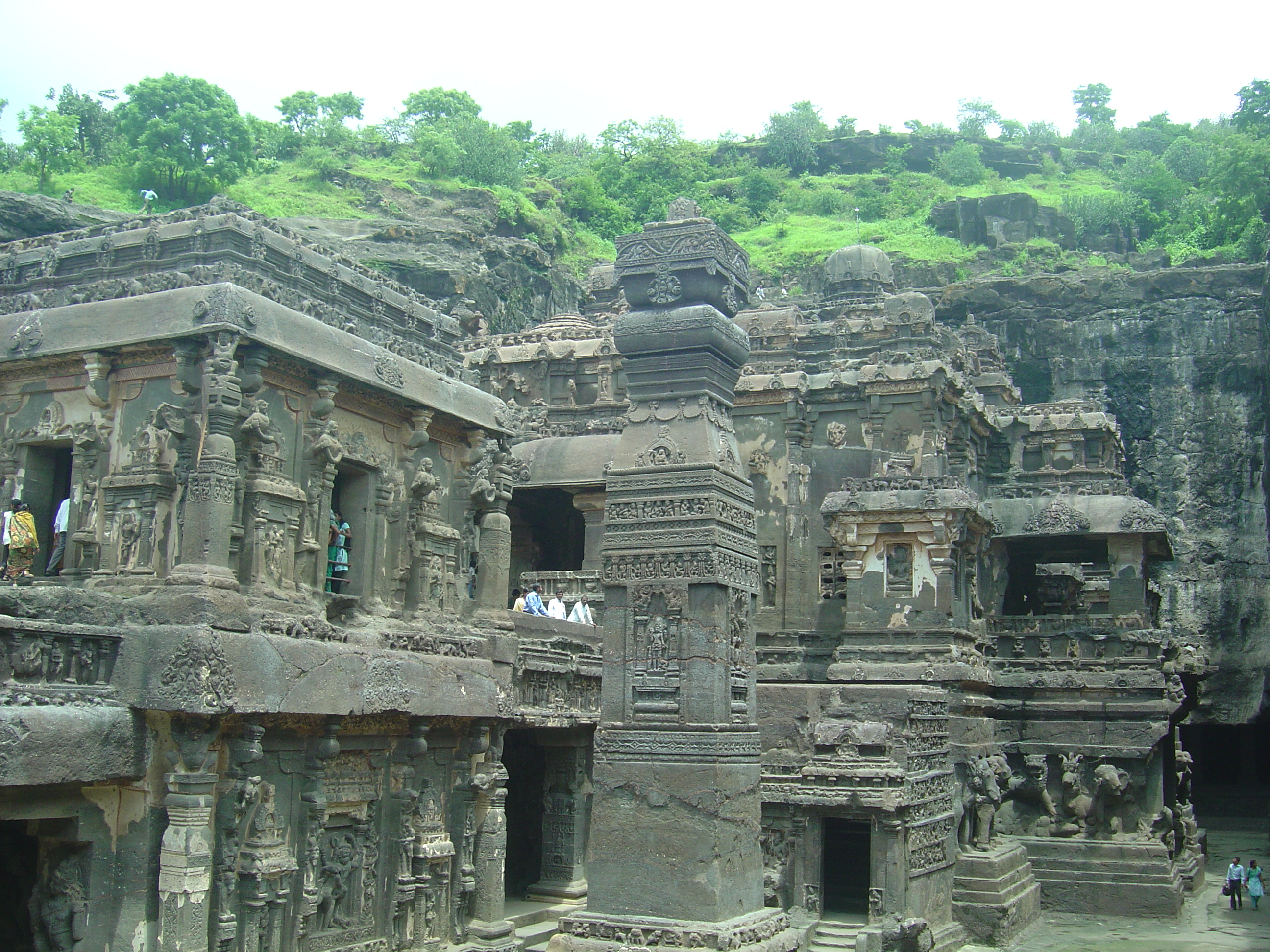 beauty of ellora